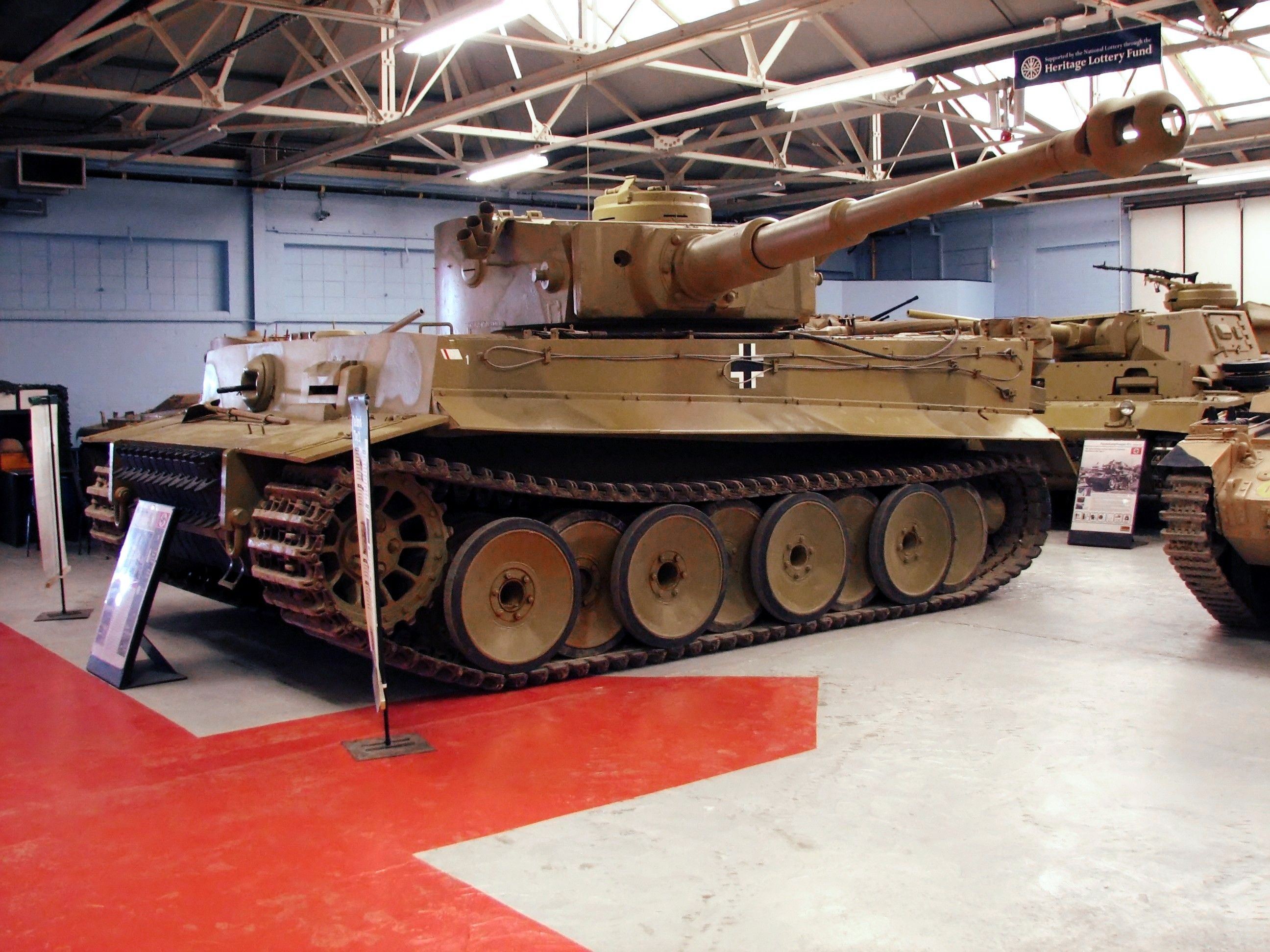 Tiger I at Bovington Tank Museum